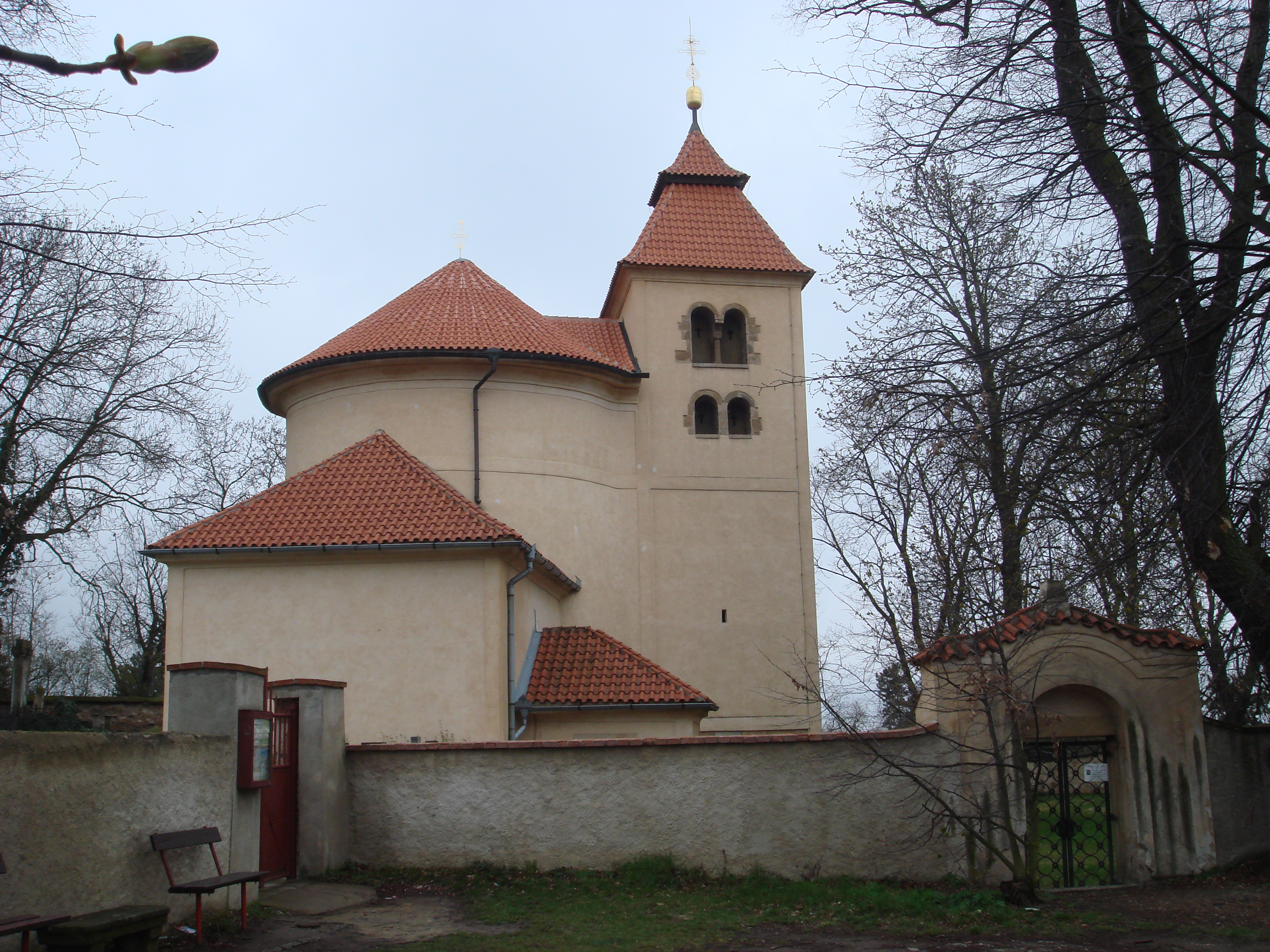 Church of Saints Peter and Paul in Budeč (Central Bohemian Region, Czechia).